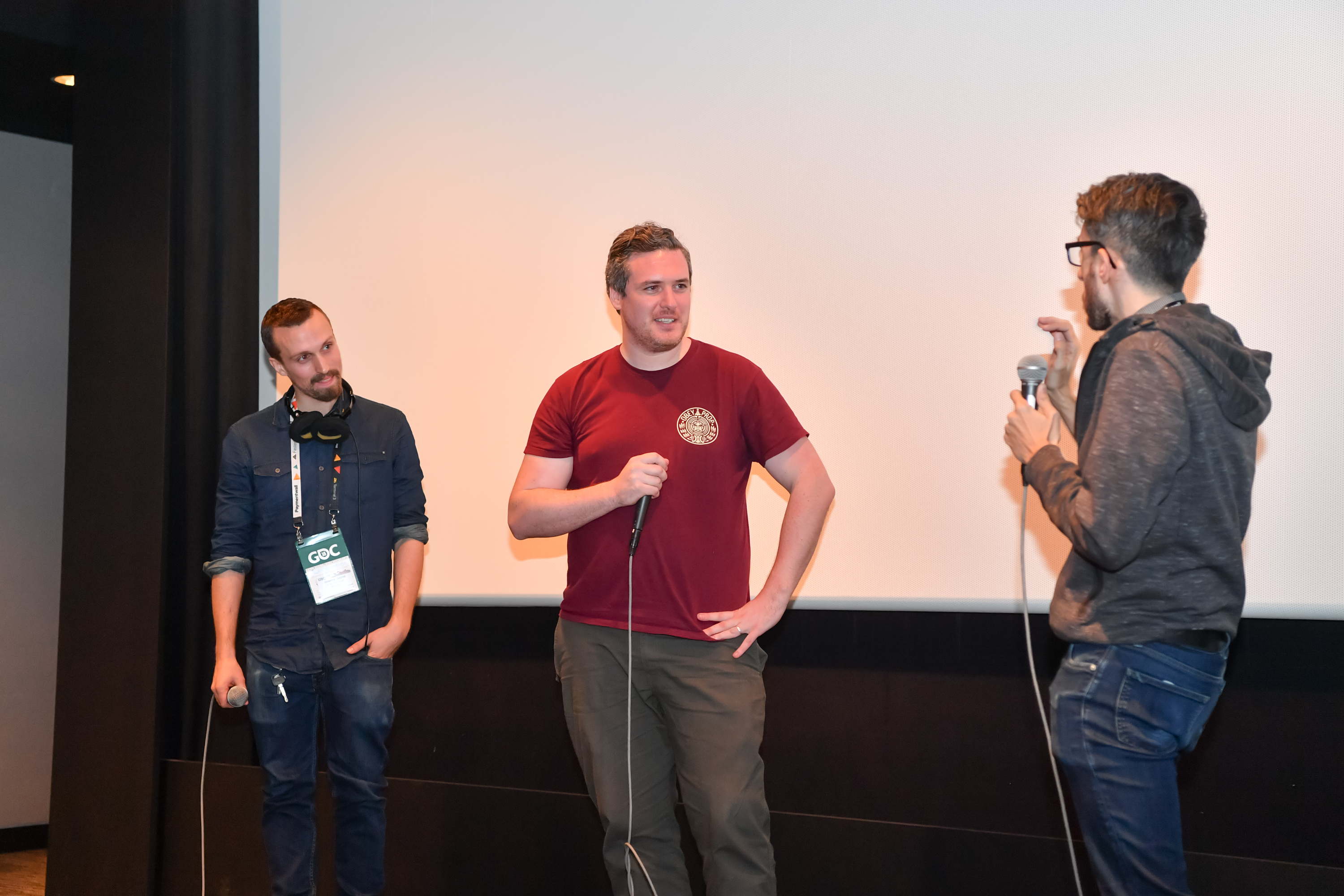 Danny O'Dwyer (centre) and Jeremy Jayne (left), present a Q&A on their work, Noclip, at the 2018 GDC Film Festival.